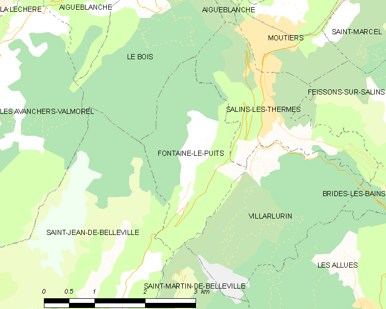 Map of French municipality